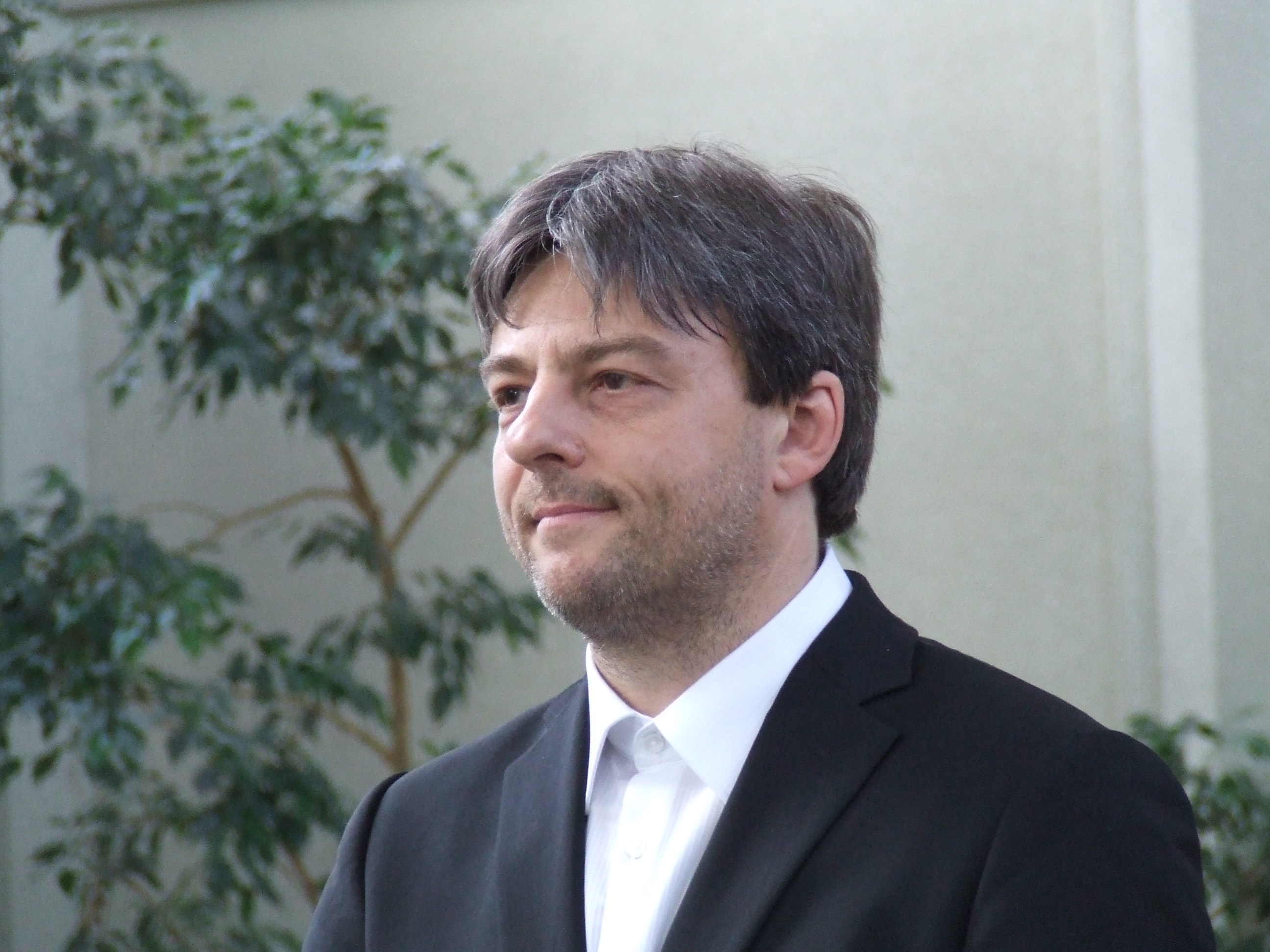 Thierry Mechler (French composer and organist, born 1962)